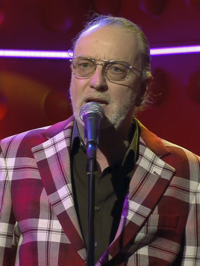 Ton Kas (2018)